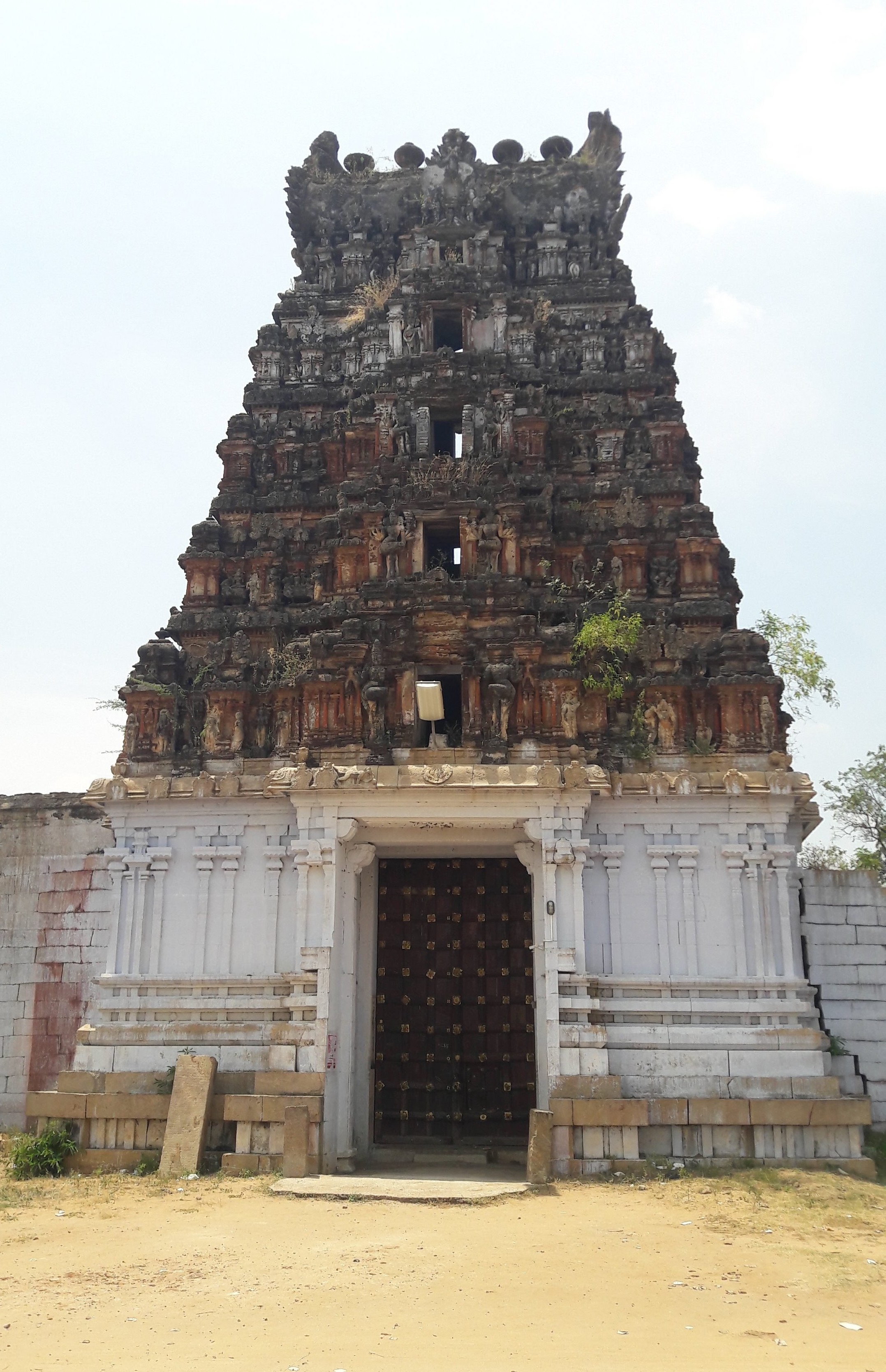 Alwarkuruchi Sivan Temple, Tiruinelveli District